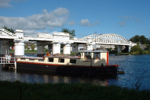 Railway Bridge over the Shannon, Athlone. Photo of railway bridge taken looking upstream from the west bank of the River Shannon at Athlone